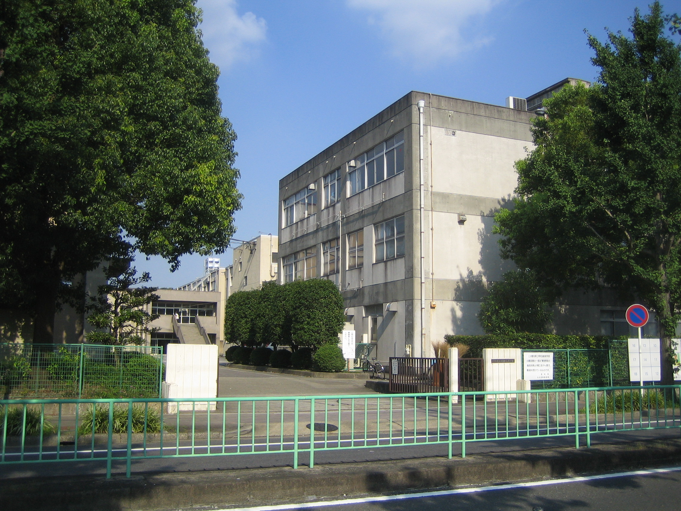 Aichi Prefectural Meiwa High School (愛知県立明和高等学校 Aichi kenritsu Meiwa Kōtō Gakkō), at Shirakabe, Higashi, Nagoya, Japan